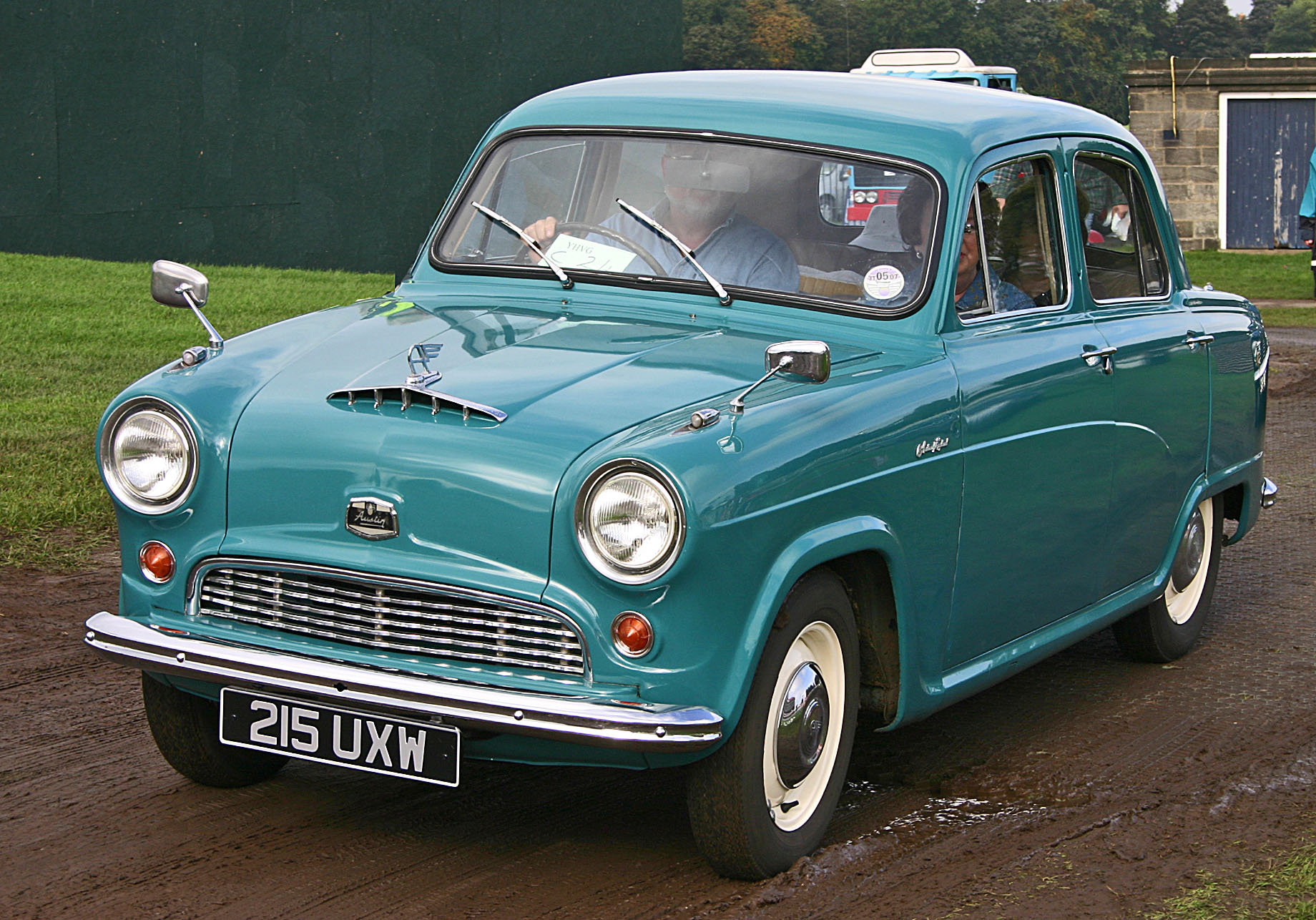 The Austin A50 Cambridge Hola q tal quisiera informacion de esta vehiculo gracias